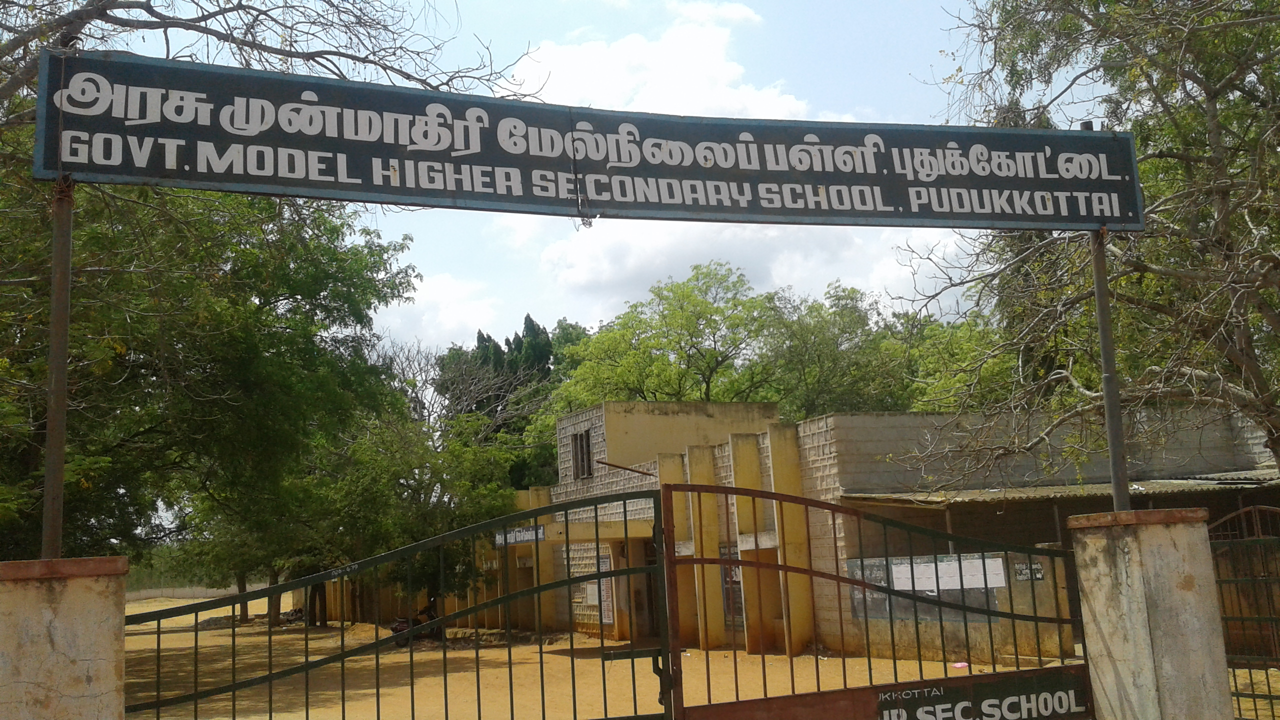 அரசு முன்மாதிரி மேல்நிலைப்பள்ளி